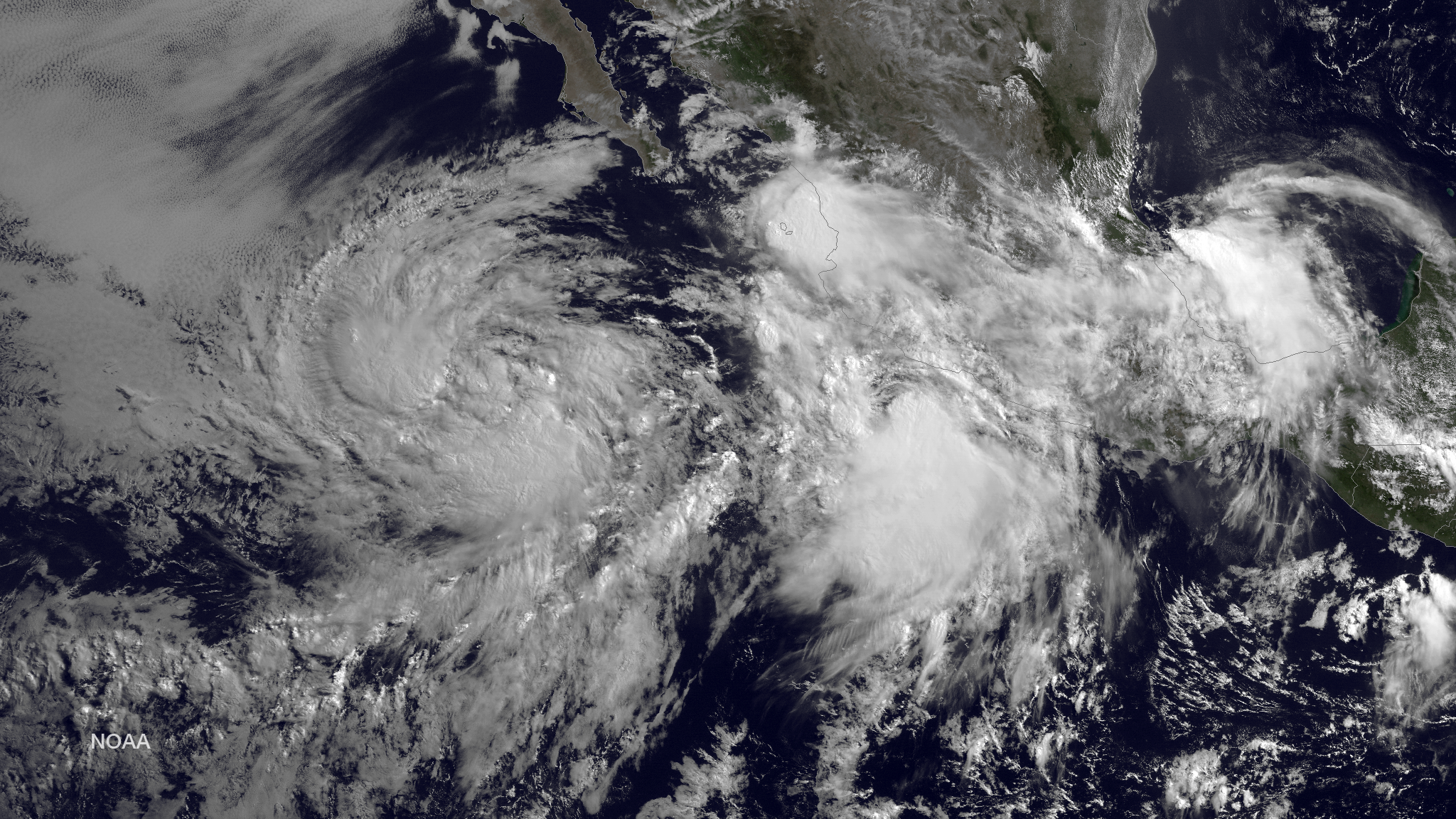 Tropical Storms Douglas and Elida in the Pacific Ocean on June 30.